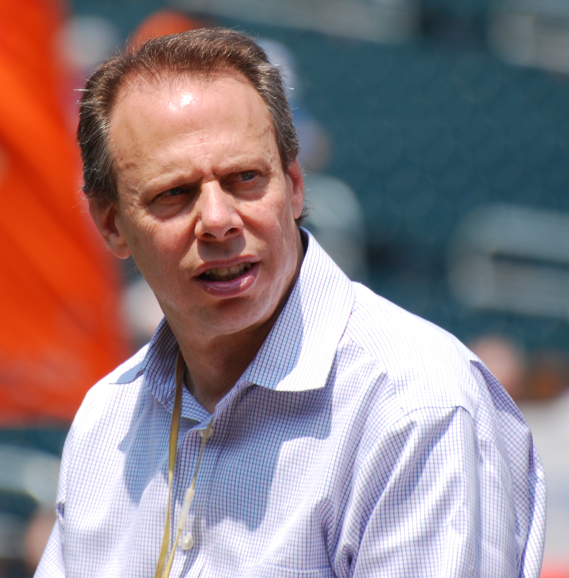 Broadcaster Howie Rose - 2012 Mets Banner Day, Citi Field